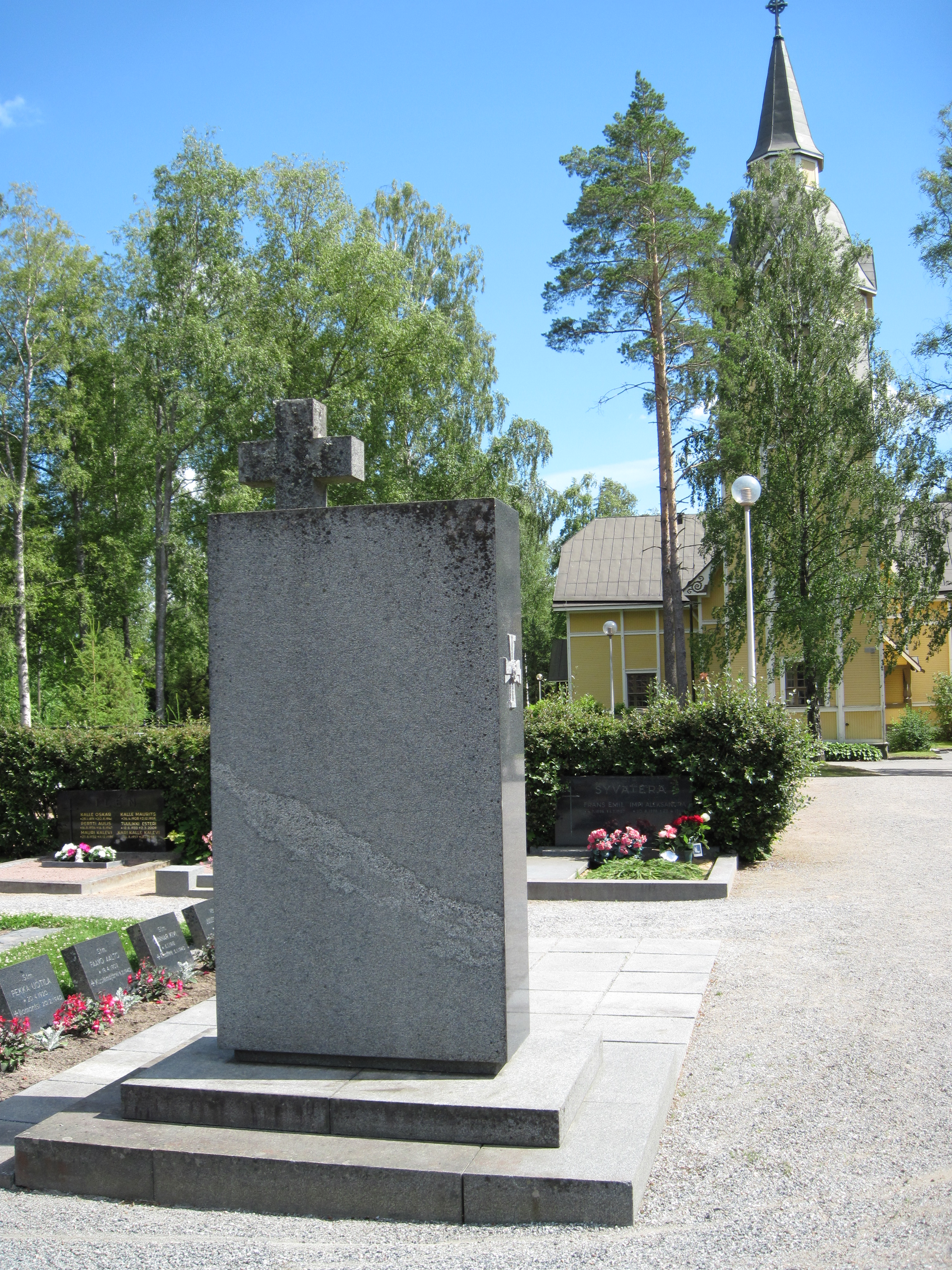 Soldier's graves at Keikyä church in Sastamala, Finland